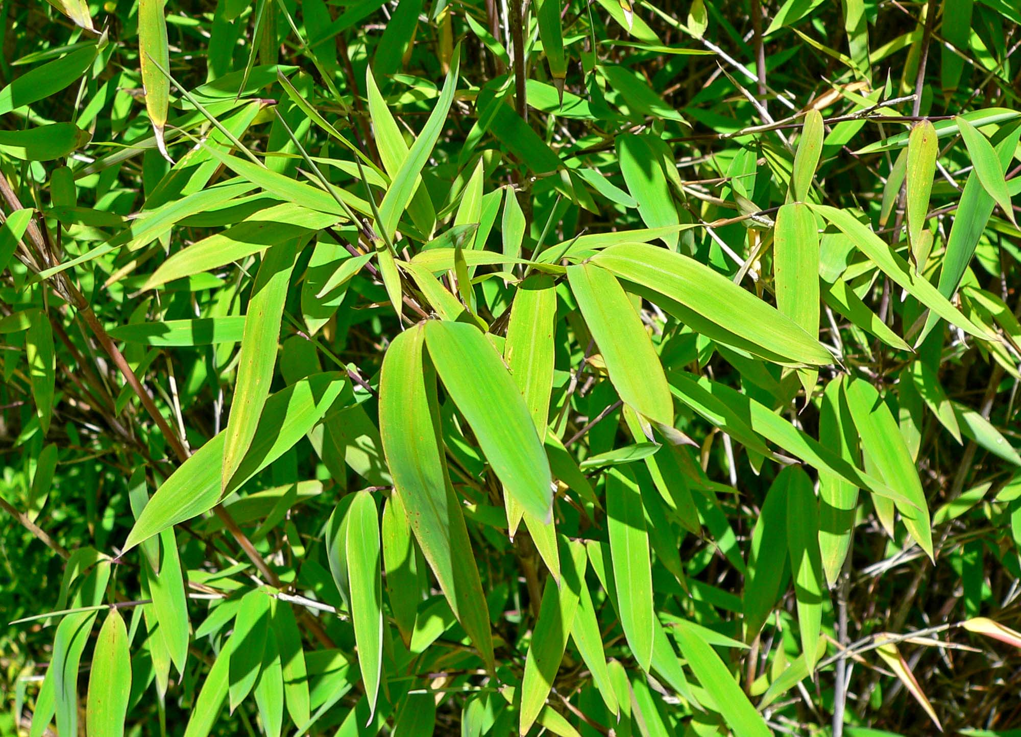 Photo of Fargesia nitida at the San Francisco Botanical Garden